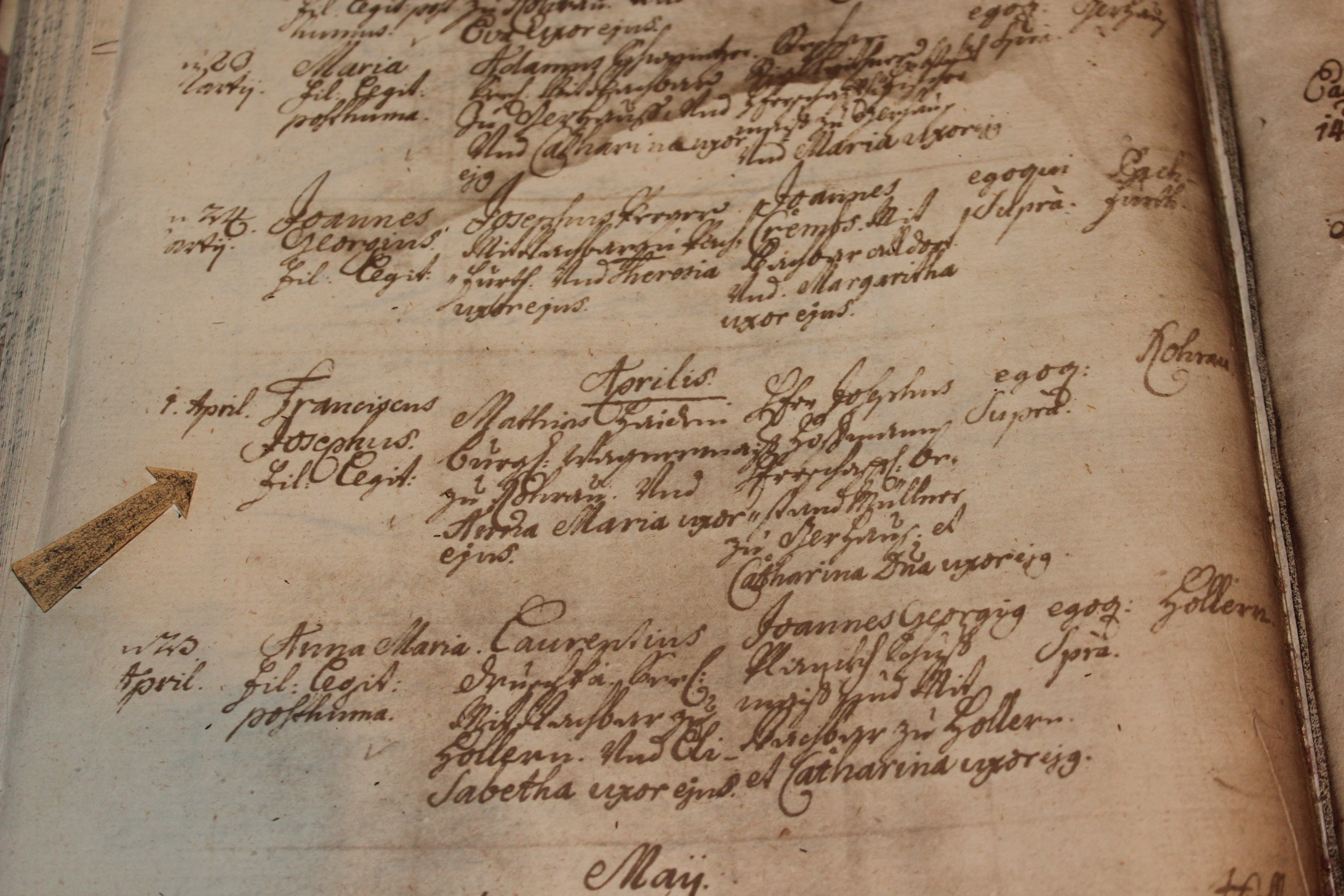 Birth registration of Joseph Haydn. (Rohrau, Austria)